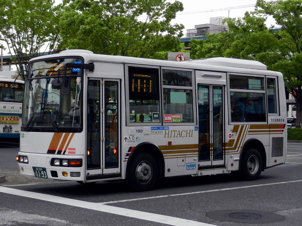 Hitachi motors Mitsubishi Fuso Aero Midi ME(PA-ME17DF) for community bus "Harukaze"